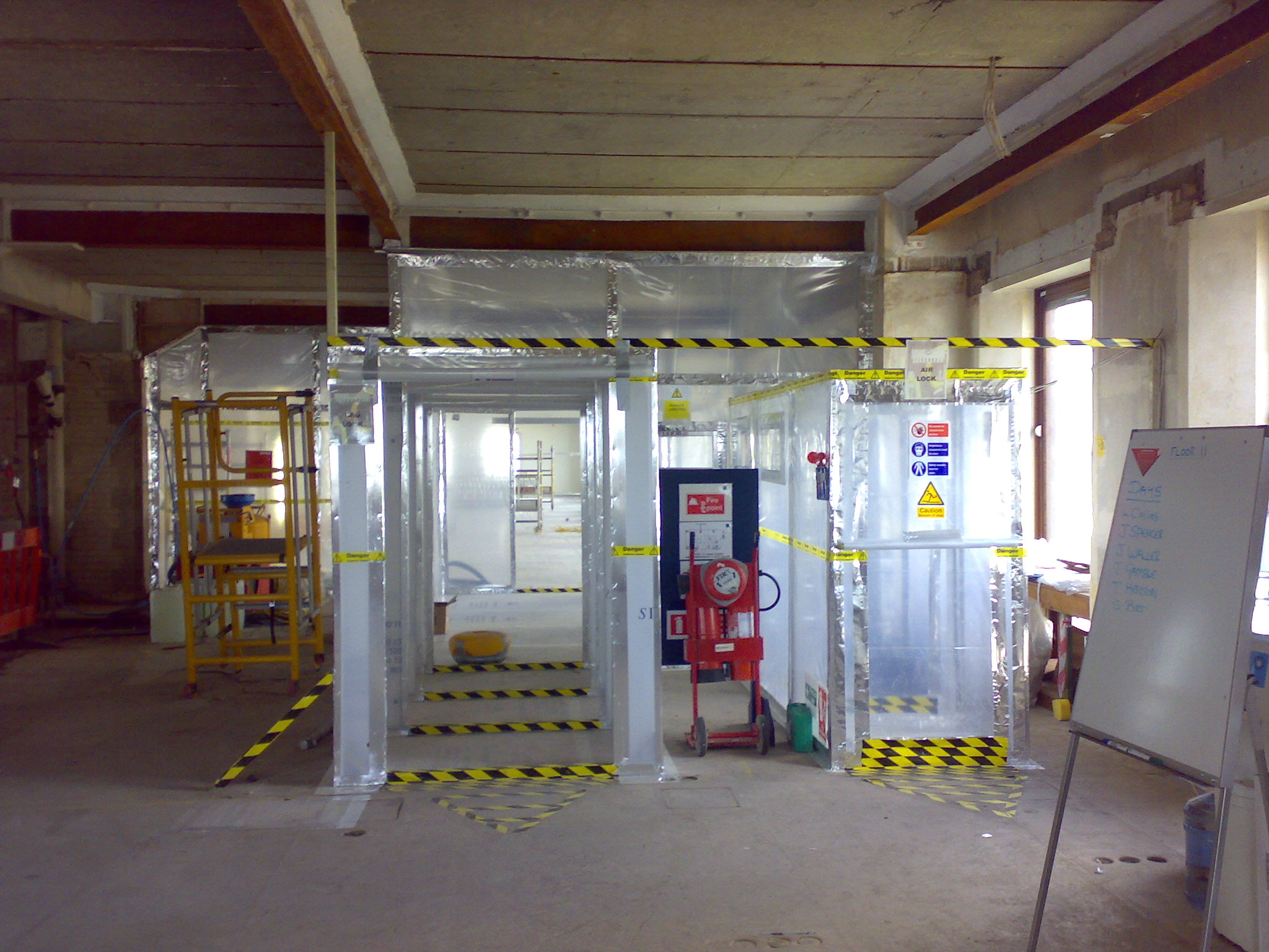 This is a typical asbestos enclosure constructed by Trinitas Contracts in the UK for the removal of asbestos sprayed coating from beams.